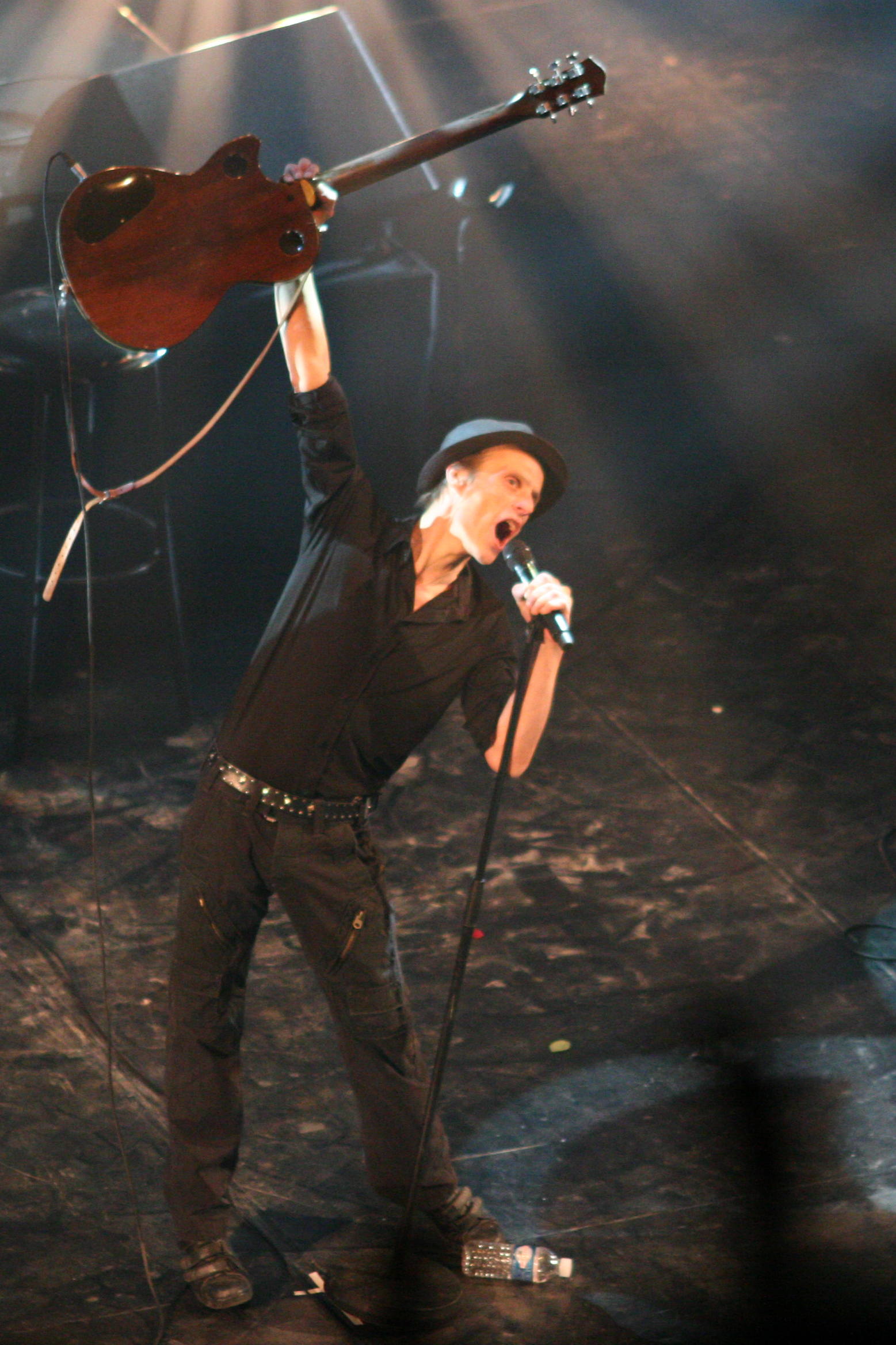 Mano Solo, concert at the Grand Rex in Paris. April, 2007, the 3rd